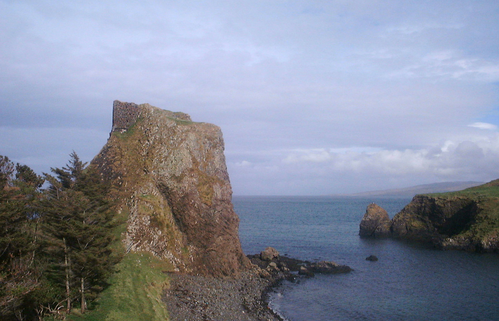 Coroghon Castle, Canna, Inner Hebrides.